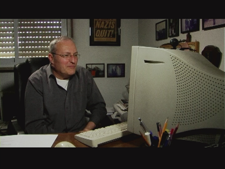 Efraim Zuroff at his computer